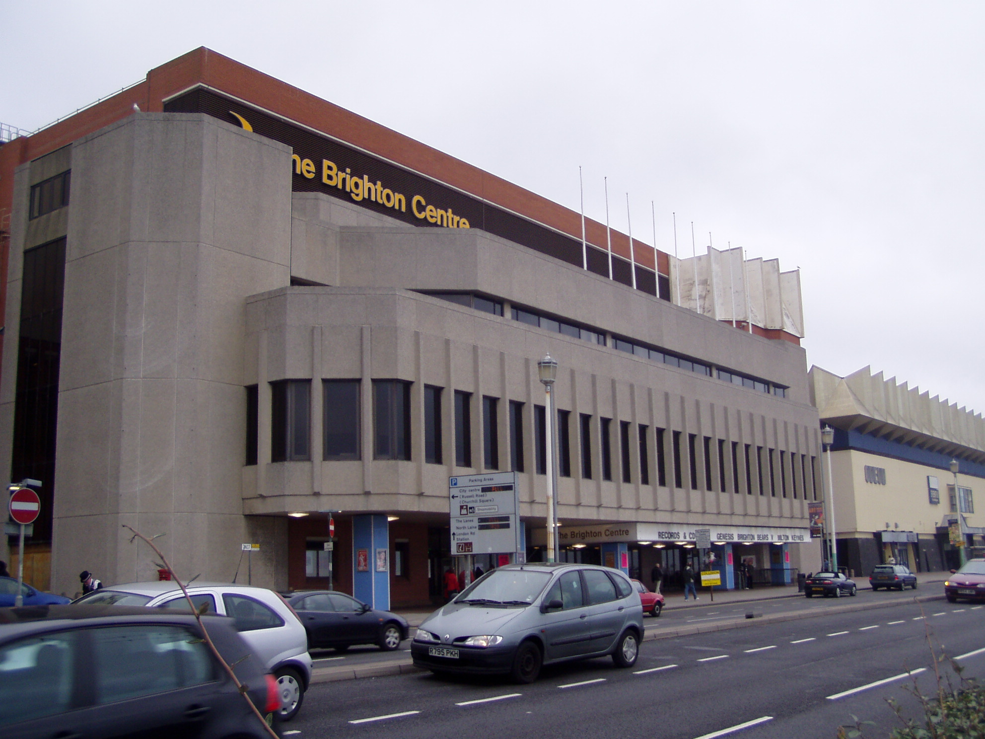 Brighton Centre at the Seafront